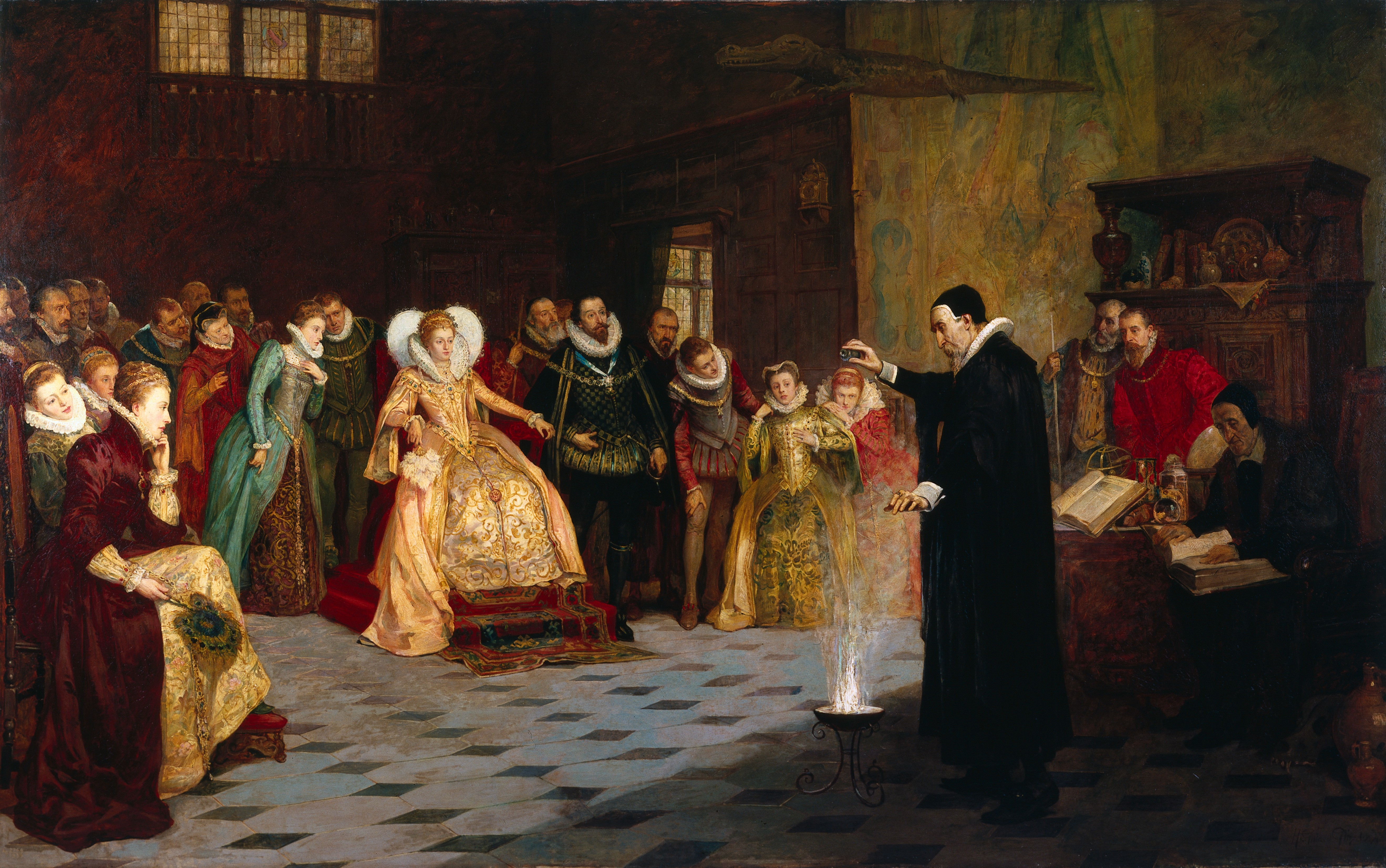 Iconographic Collections Keywords: elizabeth i; glindoni, henry gillard {1852-; i.c. no. p 2744/1939; Alchemy; John Dee